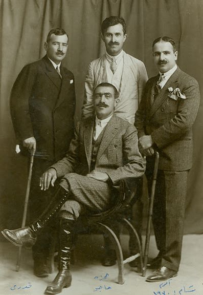 Seated: Hadjo Agha (Haco Axa), back row, left to right: Kadri Cemilpaşa, Mükslü Hamza (Hemzeyê Muksî), Ekrem Cemilpaşa